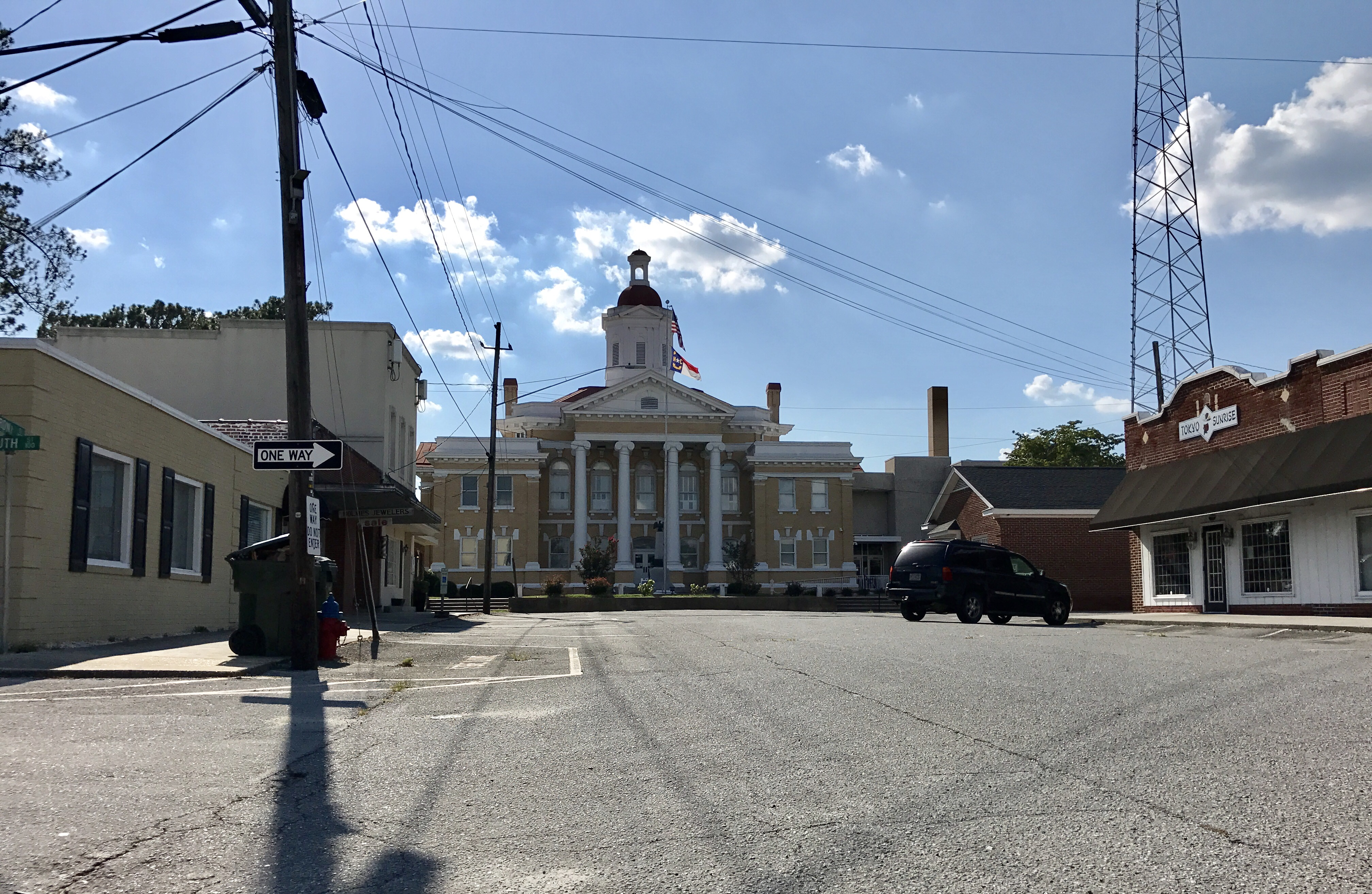 Duplin County Courthouse and square in front of it in Kenansville